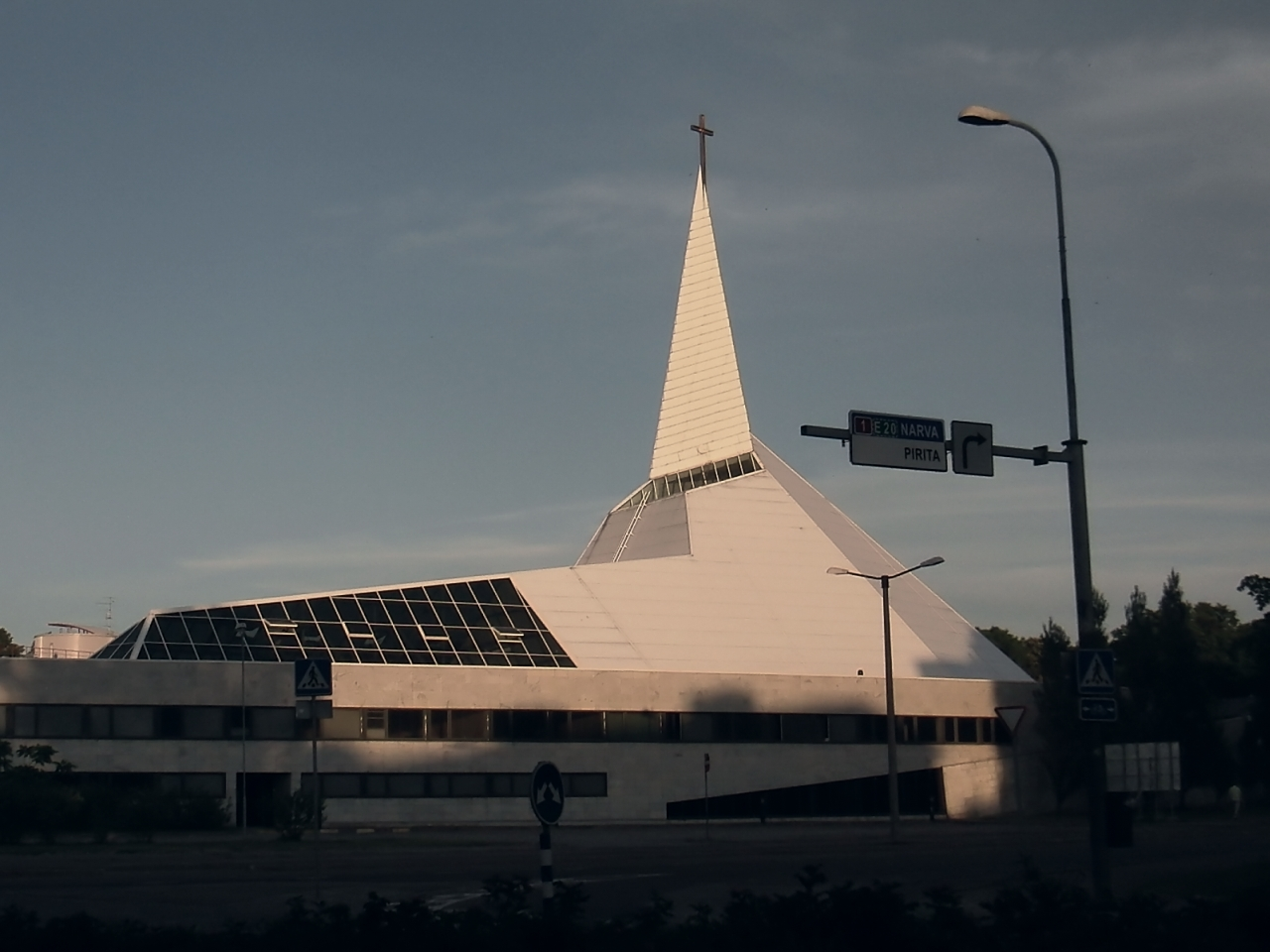 Kadriorg, Tallinn, Estonia